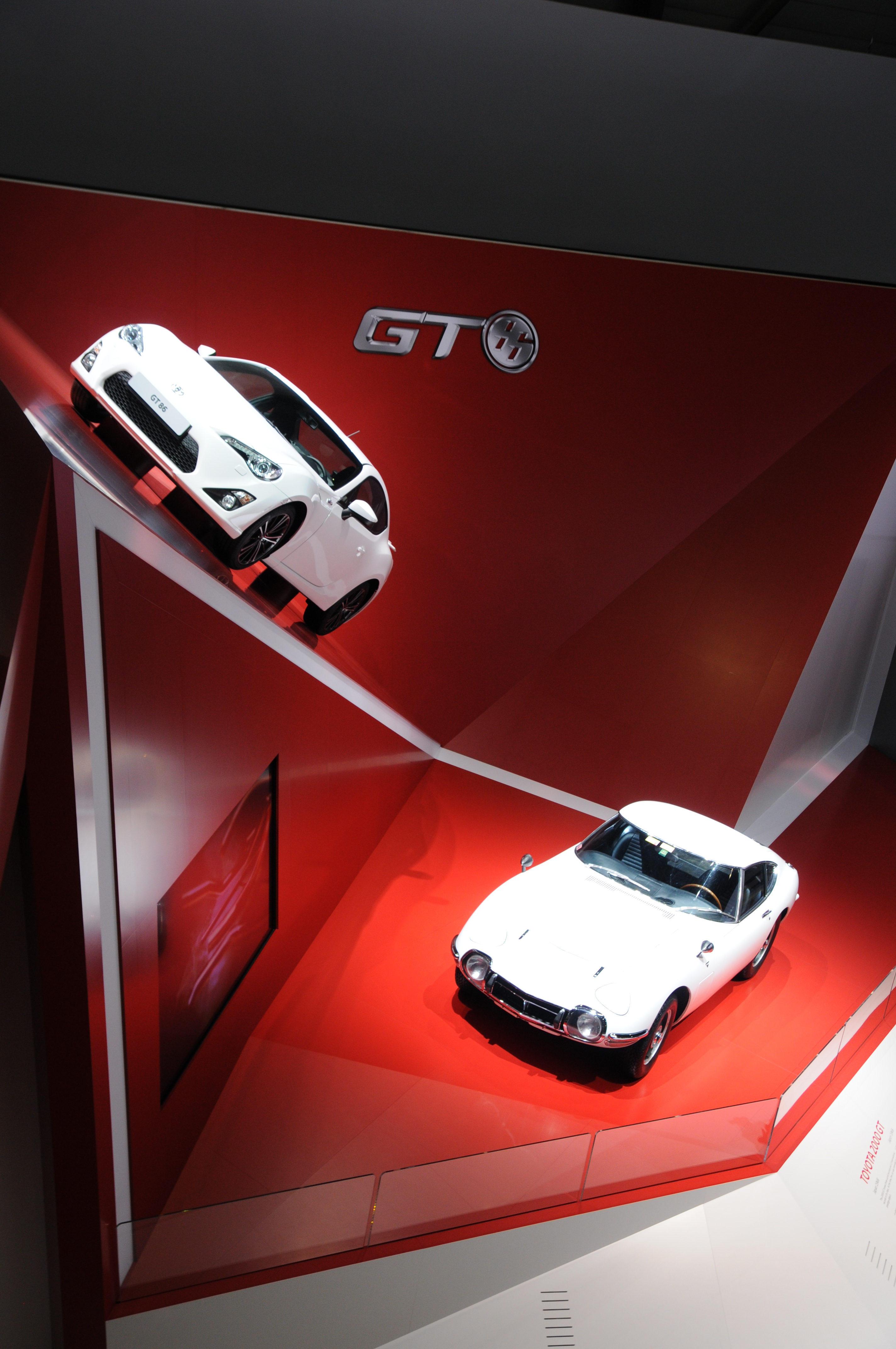 Geneva Motor Show 2012 (photos taken on the second press day)